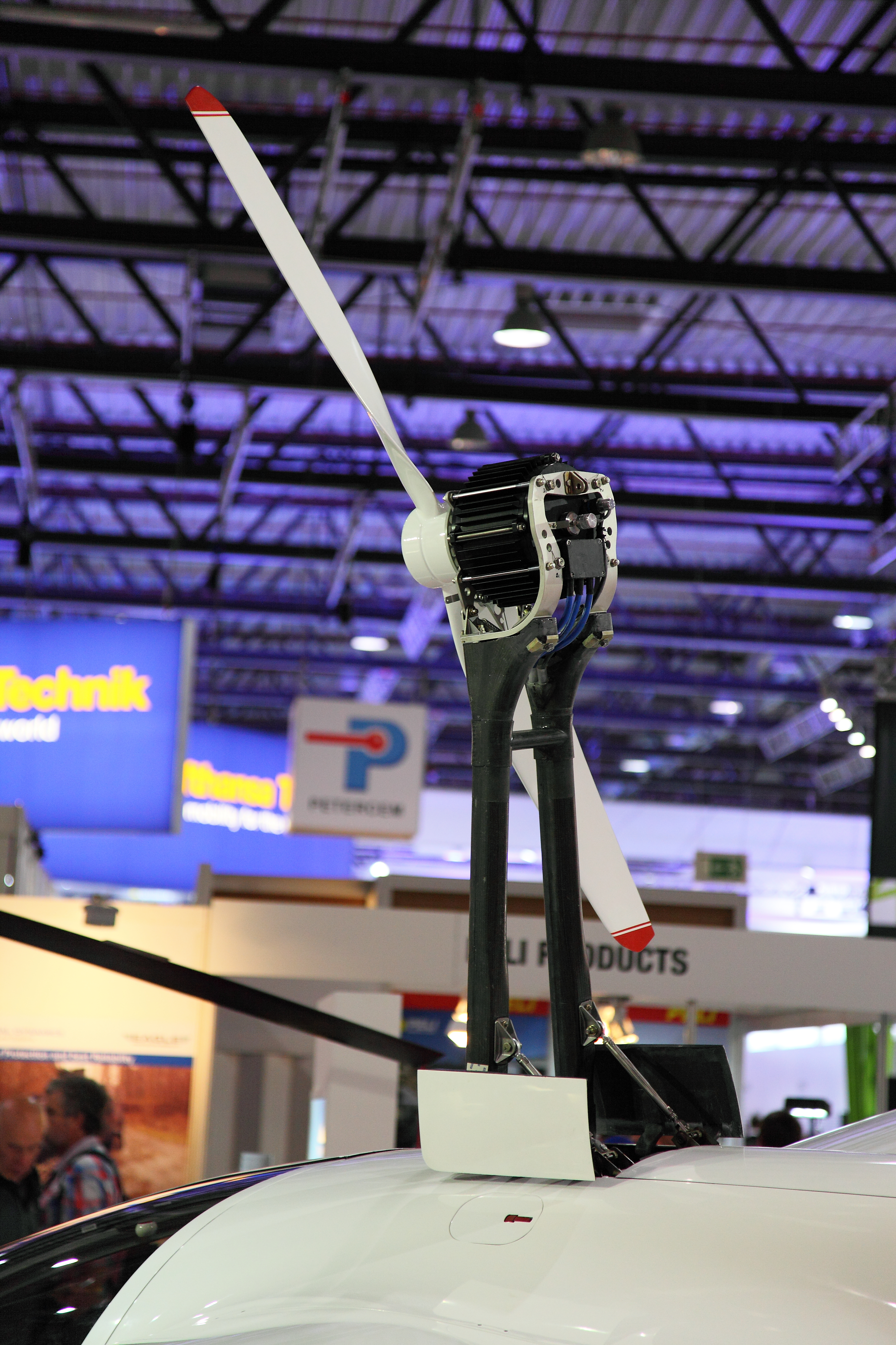 PZL-Świdnik AOS-71, ILA Berlin Air Show 2012